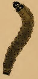 Stainton’s Natural History of the Tineina (1855–1873): Depressaria libanotidella